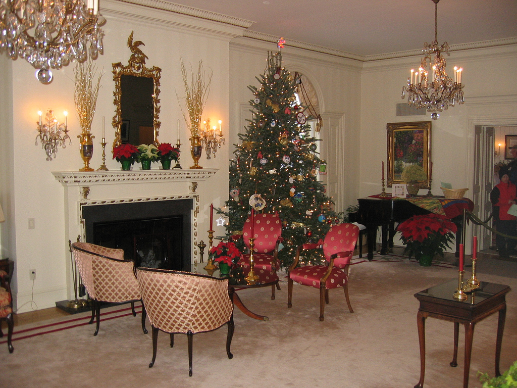 A cozy room inside the Wisconsin Governor's mansion.